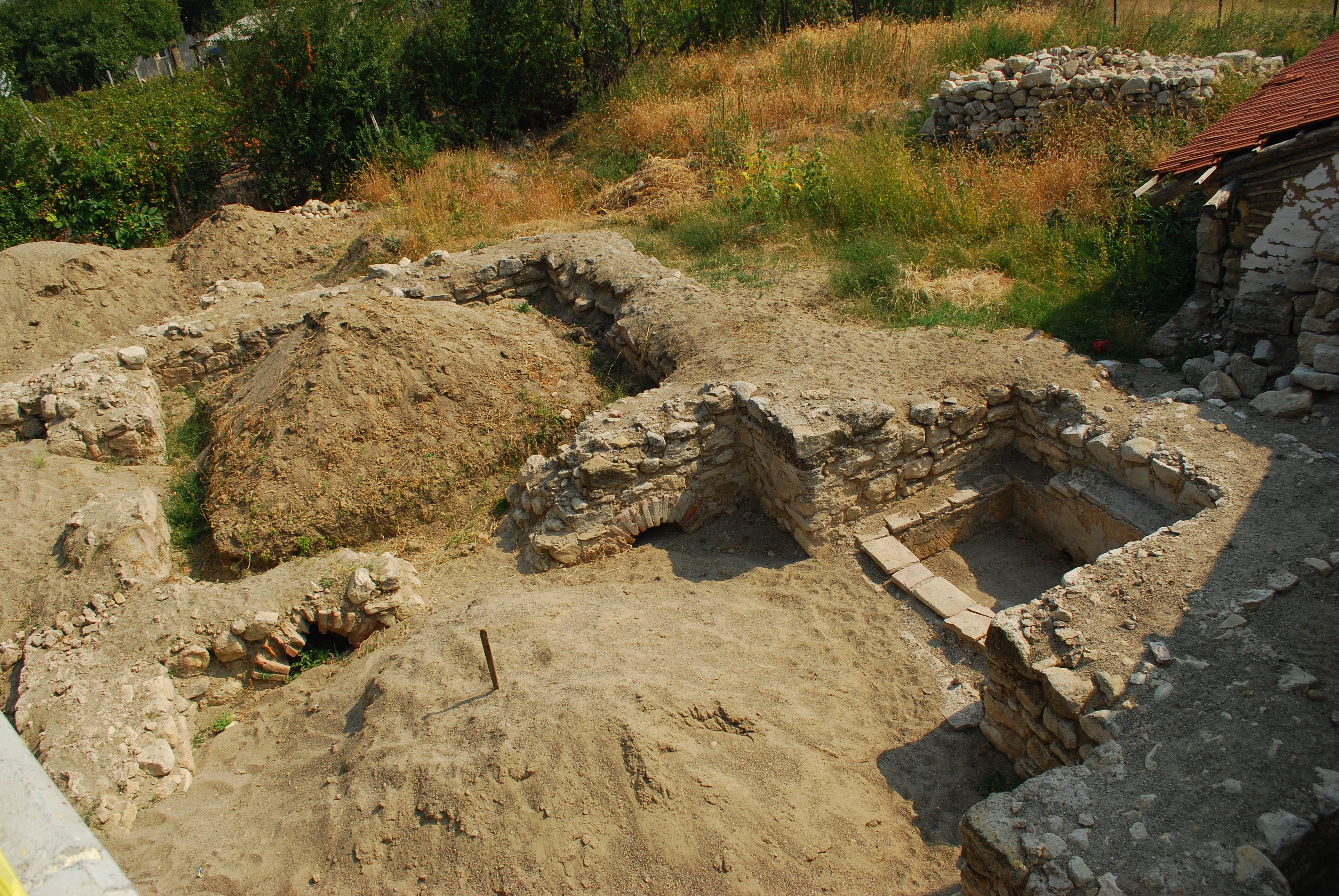 Ruins of the Roman thermae in Pietroasele, Buzău County, RomaniaRomână: Ruinele termelor romane din Pietroasele, judeţul Buzău, România 03